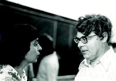 Roland Dobrushin and Elena Sinai-Vul (Warsaw, 1977)